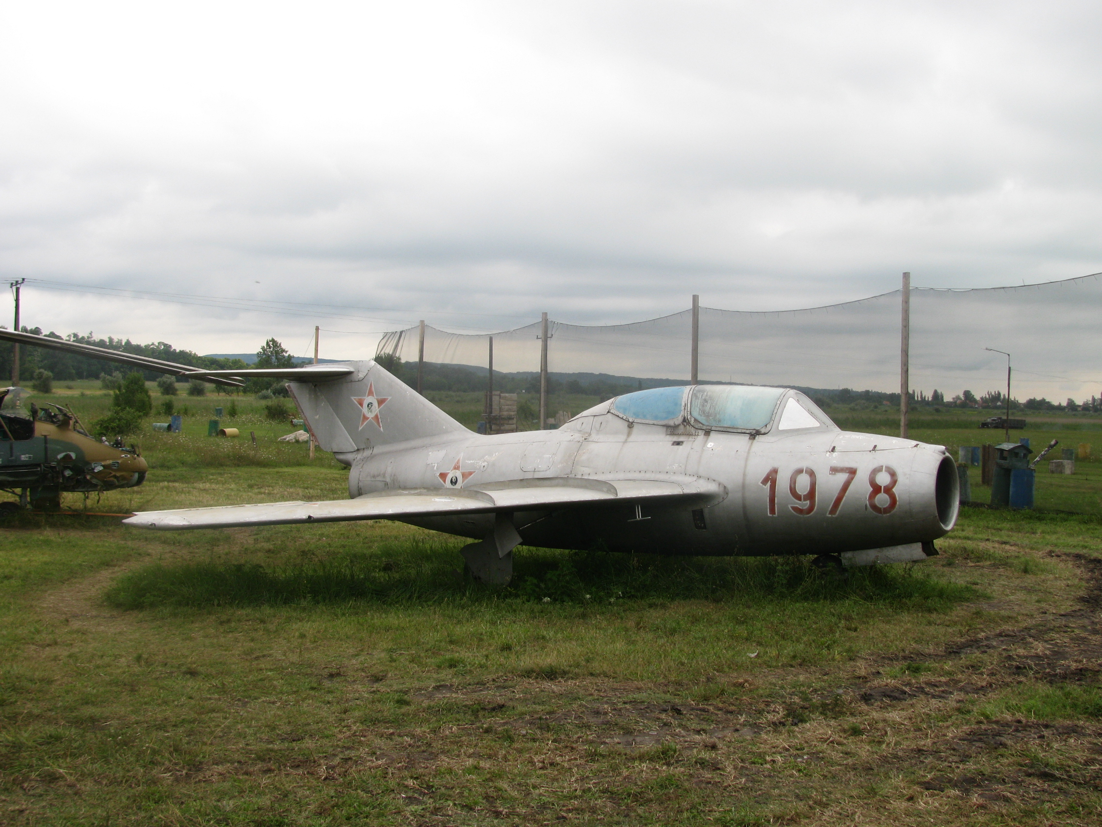 A Mikoyan-Gurevich Mikoyan-Gurevich MiG-15UTI in Zamárdi, Hungary.